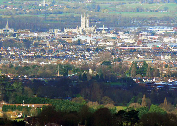 Gloucester Cathedral from Painswick Beacon